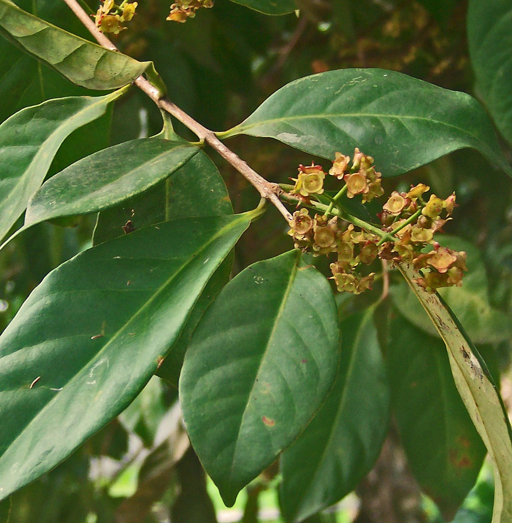 Syzygium polyanthum. From Bogor, West Java, Indonesia